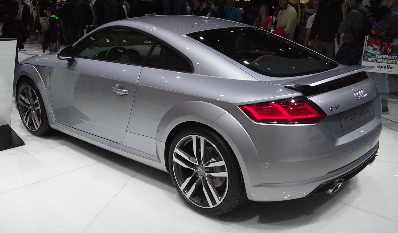 Audi TT 8S photographed at the 2014 Geneva Motor Show, Geneva, Switzerland.